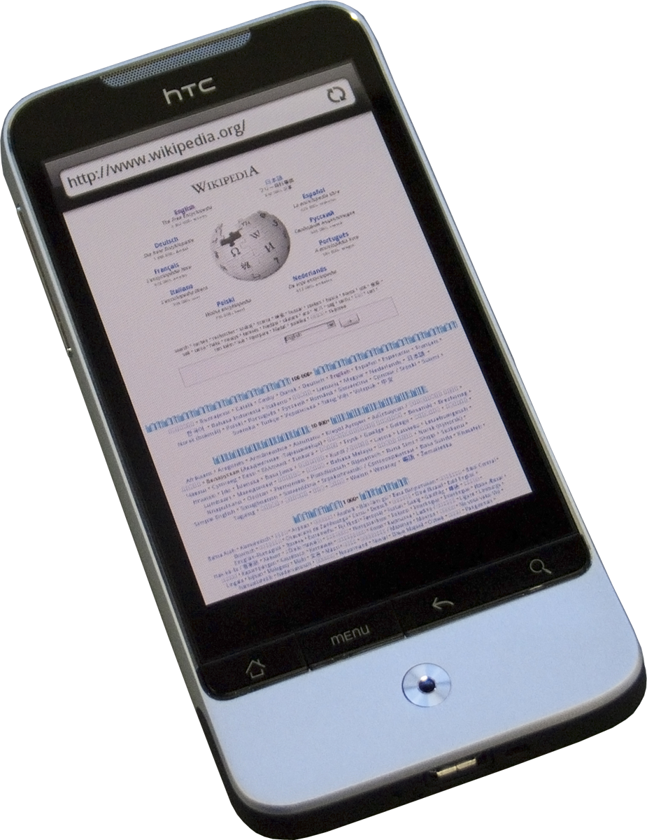 Created this work entirely by myself, except for Wikipedia home screen.